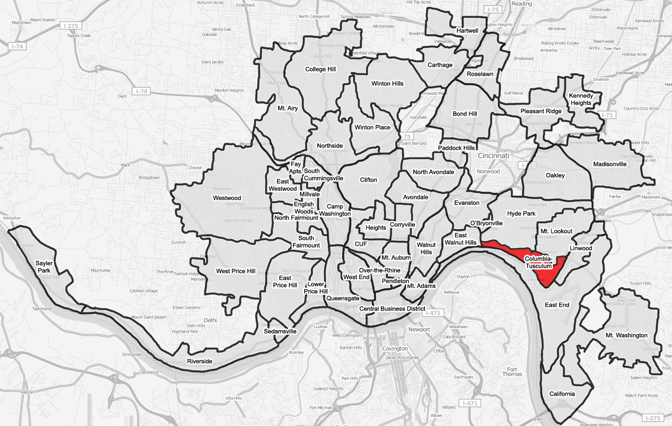 A map of the neighborhood of Columbia-Tusculum within Cincinnati, Ohio. Neighborhood lines are based on information from This street map is derived from a free map.